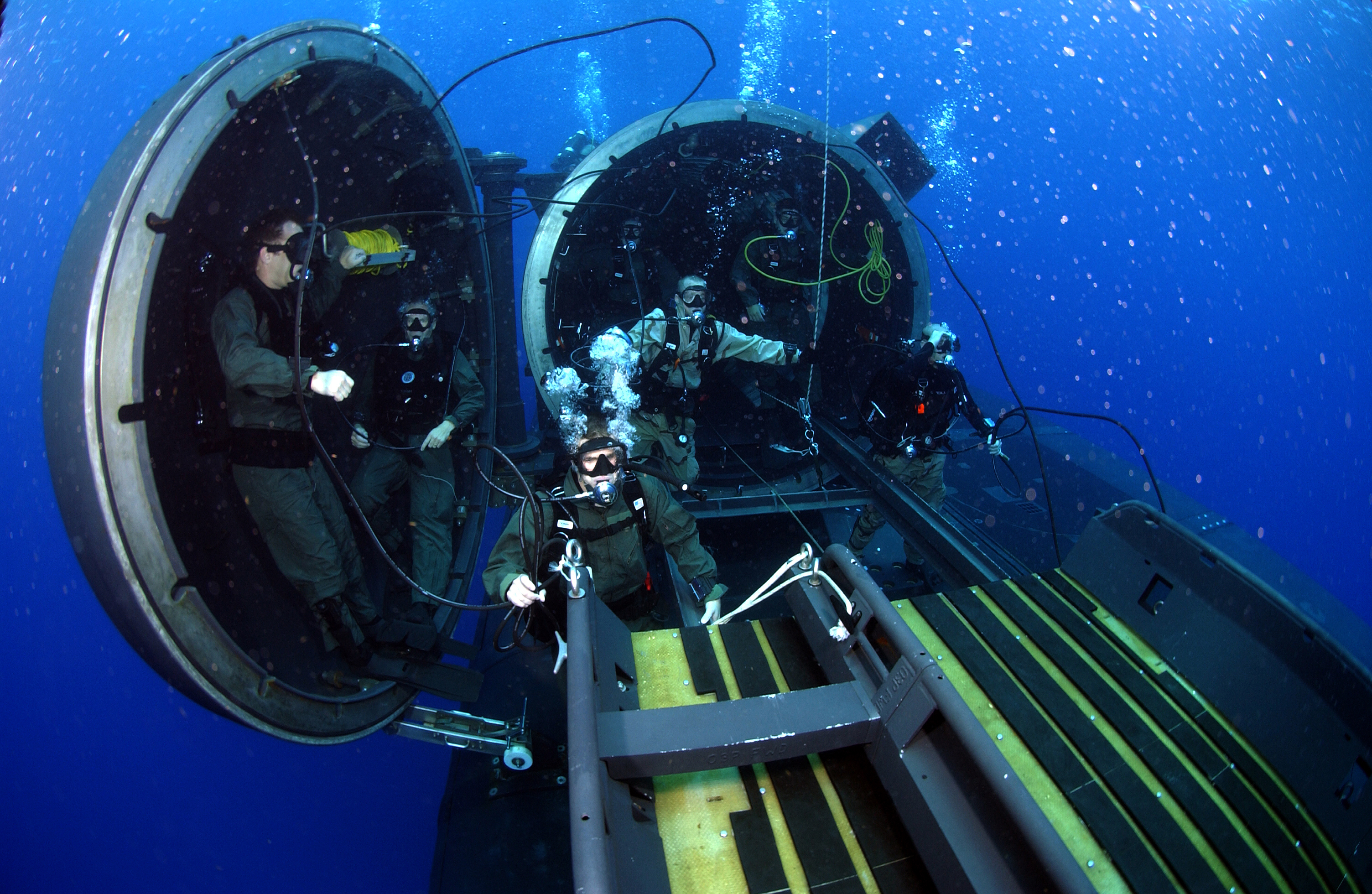 Navy divers and special operators attached to SEAL Delivery Team (SDV) 2, perform SDV operations with the Ohio-Class nuclear-powered guided-missile submarine USS Florida (SSGN 728) for material certification. Material certification allows operators to perform real-world operations anytime, anywhere.